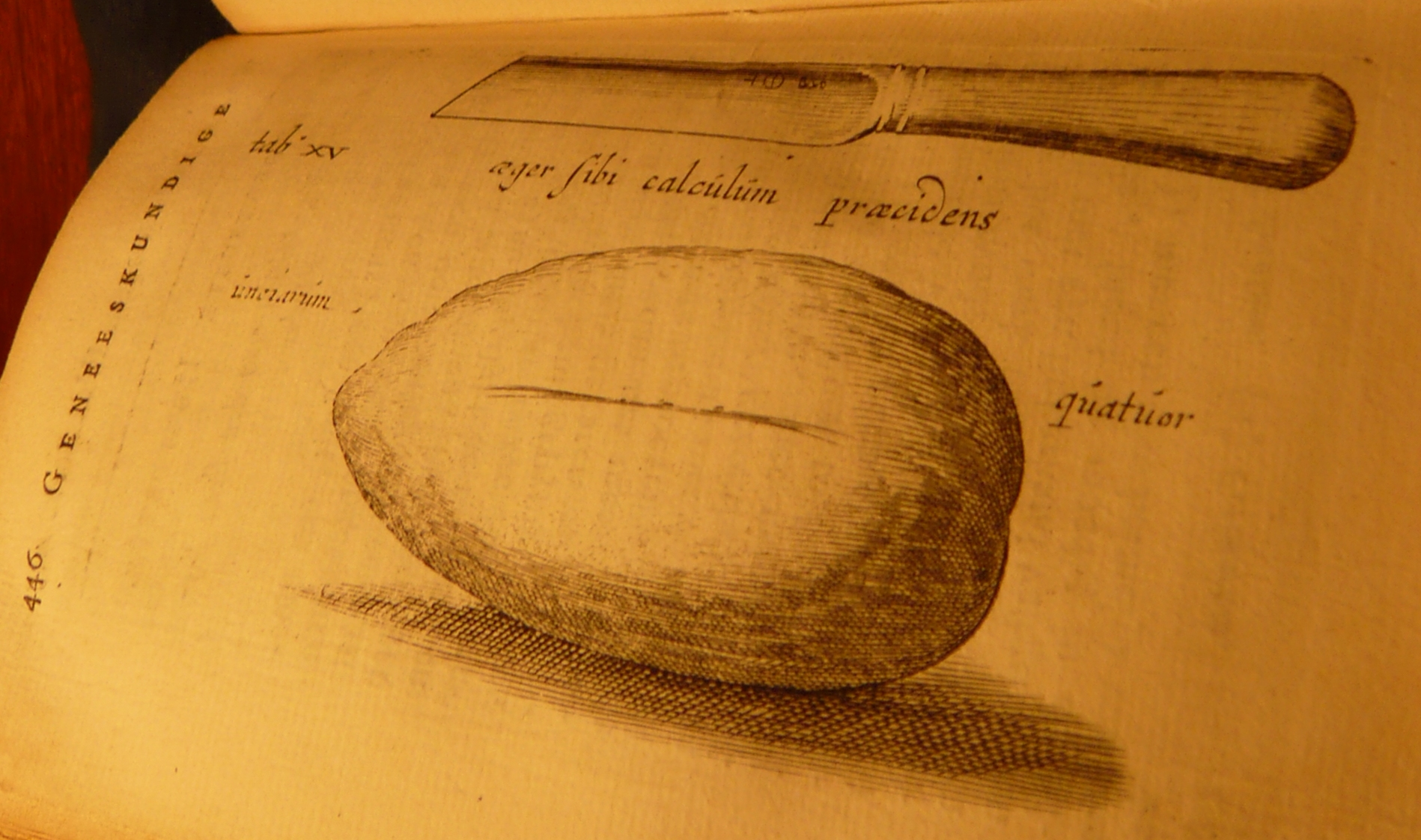 Photo of page showing the knife of Jan de Doot and the kidney stone he removed with said knife from his own kidney with the help of his brother in the 17th century. This story is described in the book Observationes Medicae by Nicolaes Tulp. Closer viewing shows the mark of Jan de Doot on the knife. The story claims he was a knife-maker by trade.